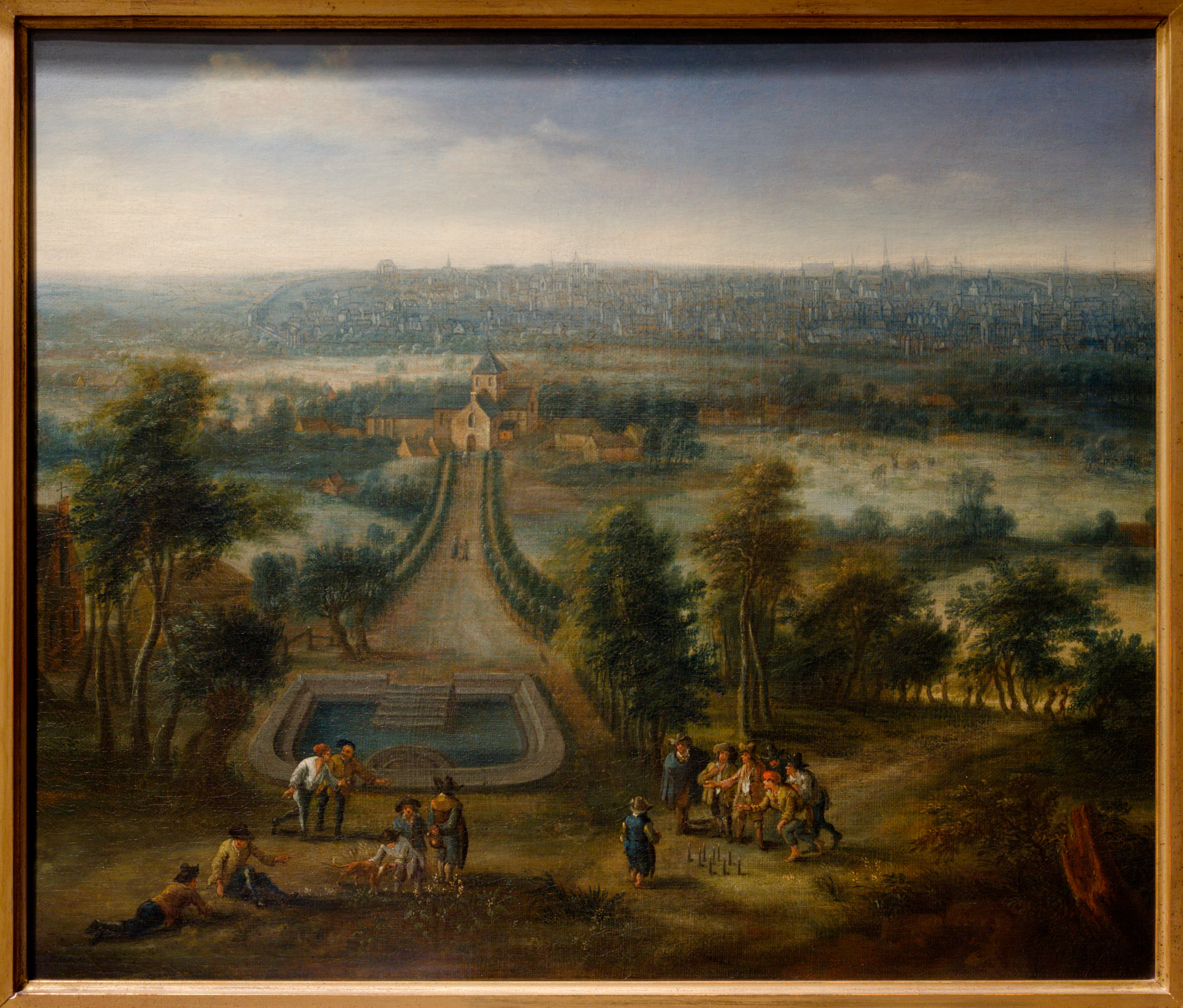 La drève Sainte-Anne à Laeken by Andréas Martin (1699-1763) in Brussels City Museum. This image is part of the Natural Image Noise Dataset